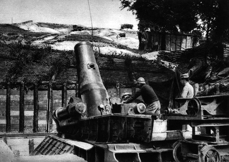 A French 370 mm Filloux mortar M1913 in firing position near Proyart (east to the Amiens)